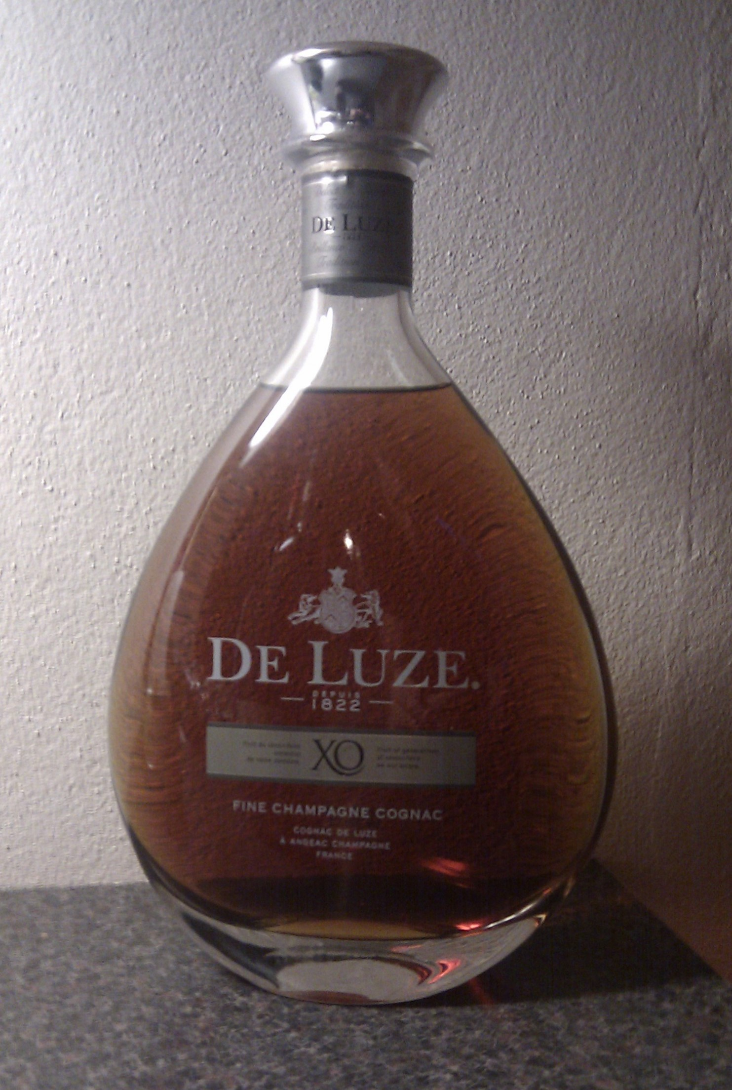 Bottle of De Luze XO (cognac)